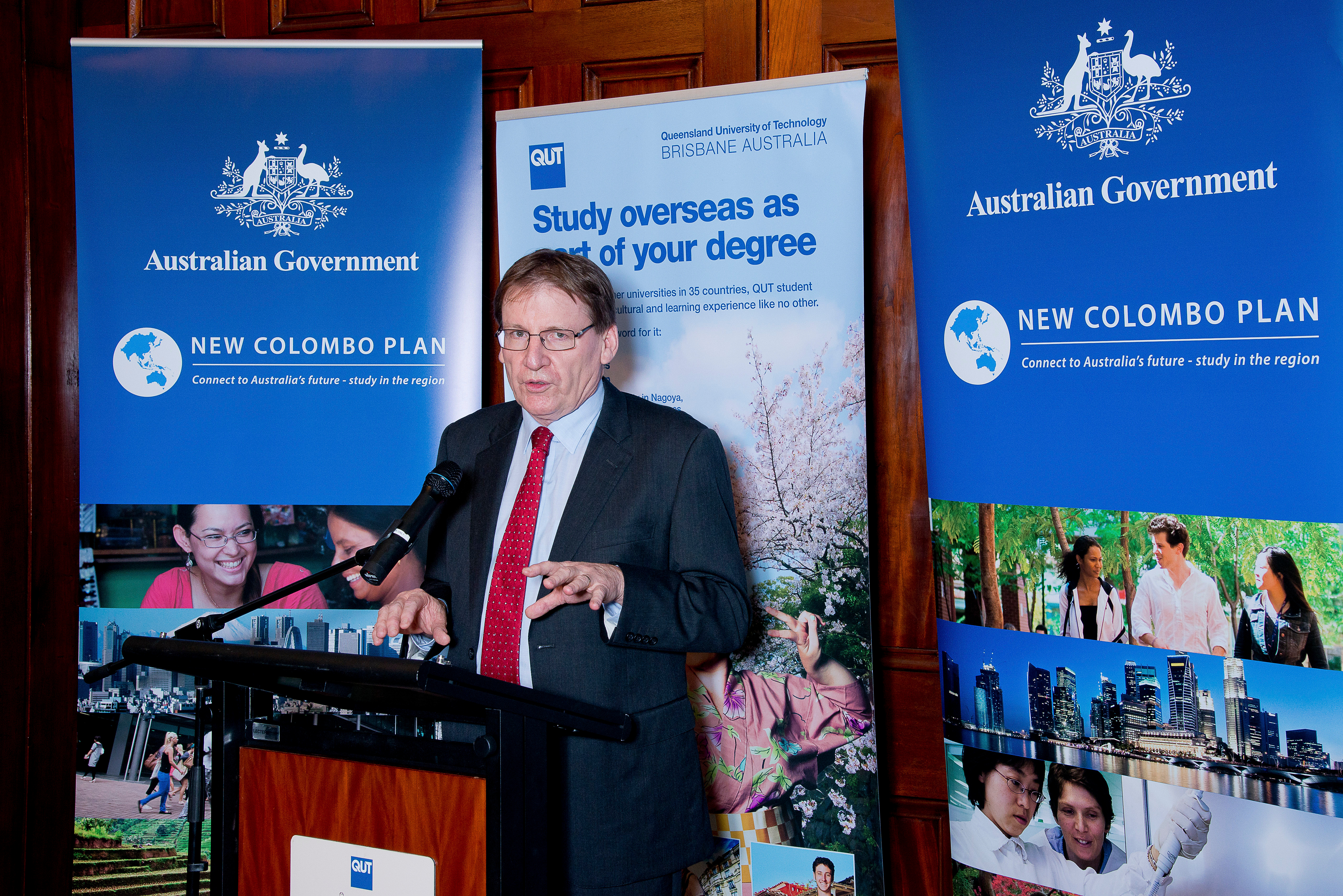 Owen Peter Coaldrake speaking to Queensland New Colombo Plan grant recipients in May 2014